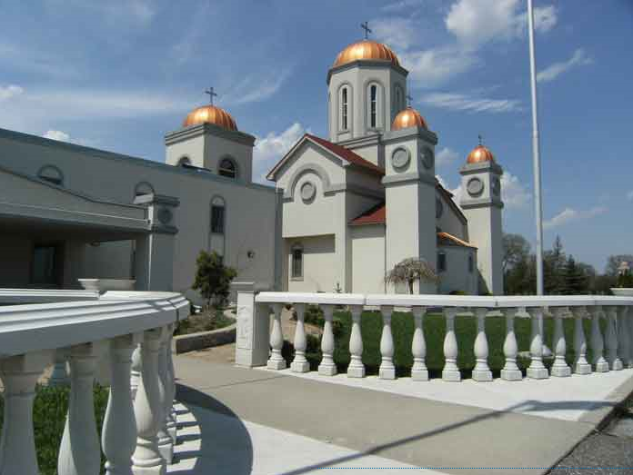 St. Nicholas Macedonian Orthodox Church, Windsor, Ontario